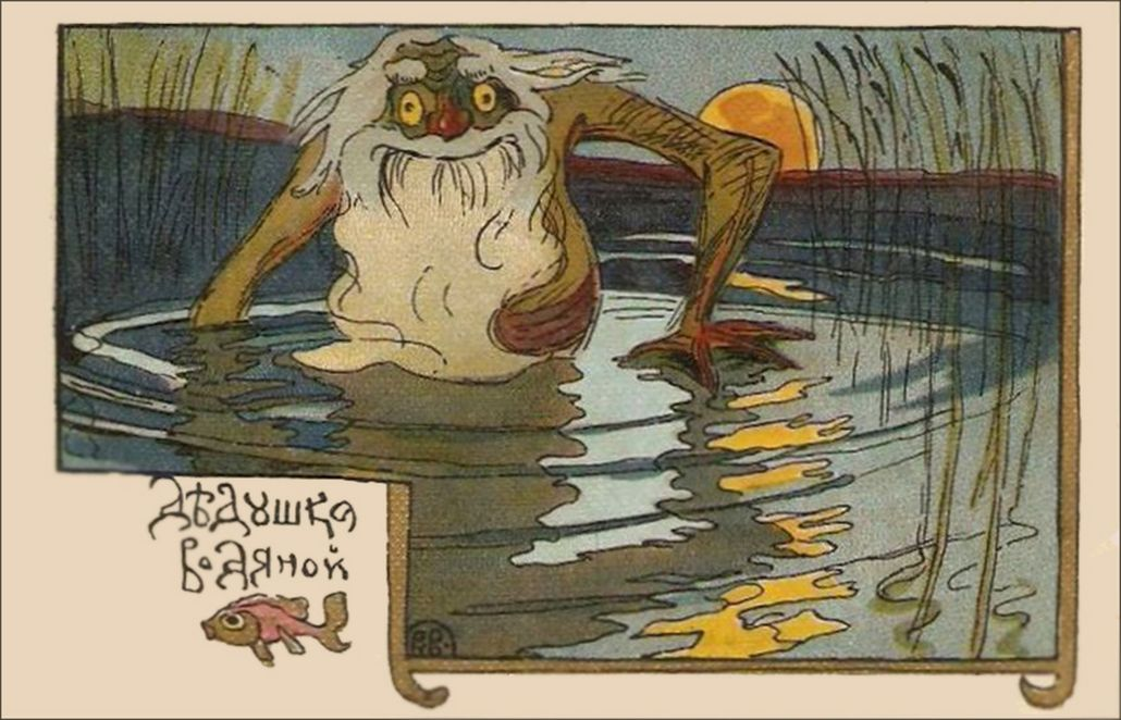 Postcard. The character from a Russian fairy tale - Water spirit